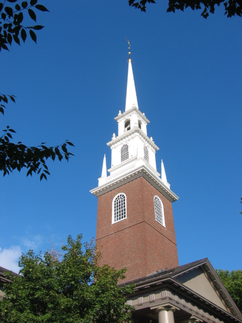 Memorial Church, Harvard Yard. Photo taken by Dudesleeper on September 21, 2003.